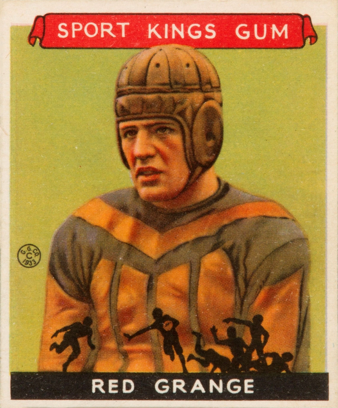 1933 Goudey Sport Kings football card of Red Grange of the Chicago Bears #4. PD-not-renewed.